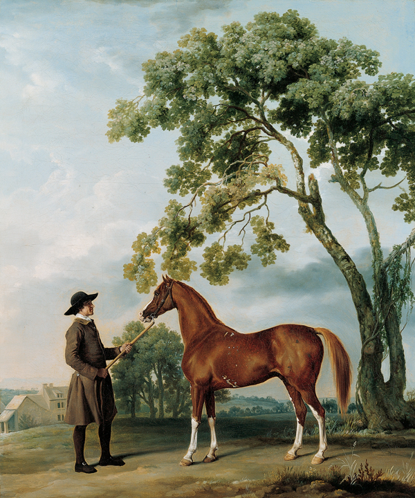 Lord Grosvenor's Arabian Stallion with a Groom, c. 1765, oil on canvas painting by George Stubbs, Kimbell Art Museum